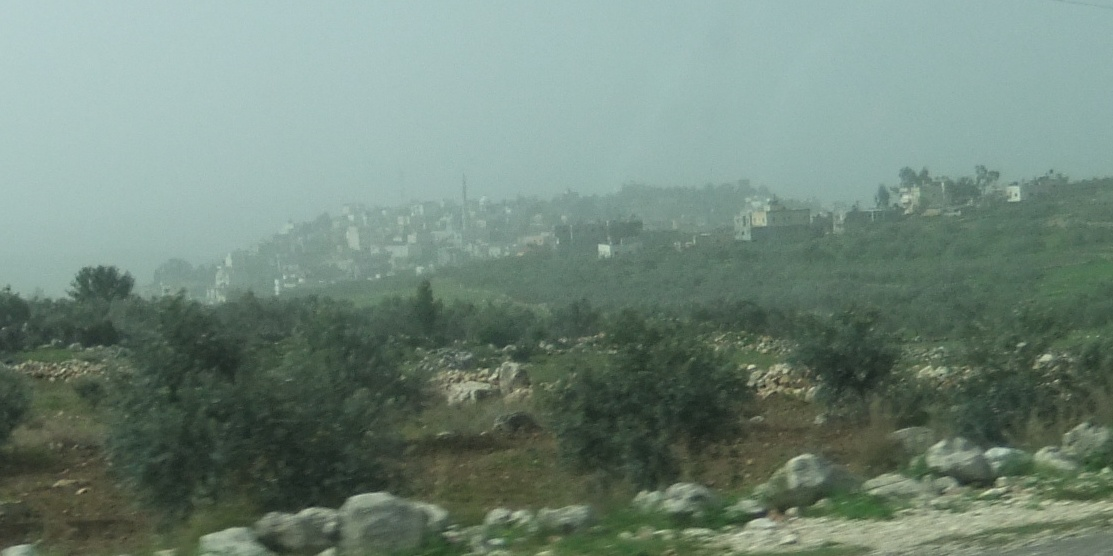 Rantis